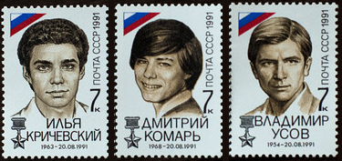 Russian stamps commemorating the three civilians killed during the 1991 Moscow coup and awarded Hero of the Soviet Union.